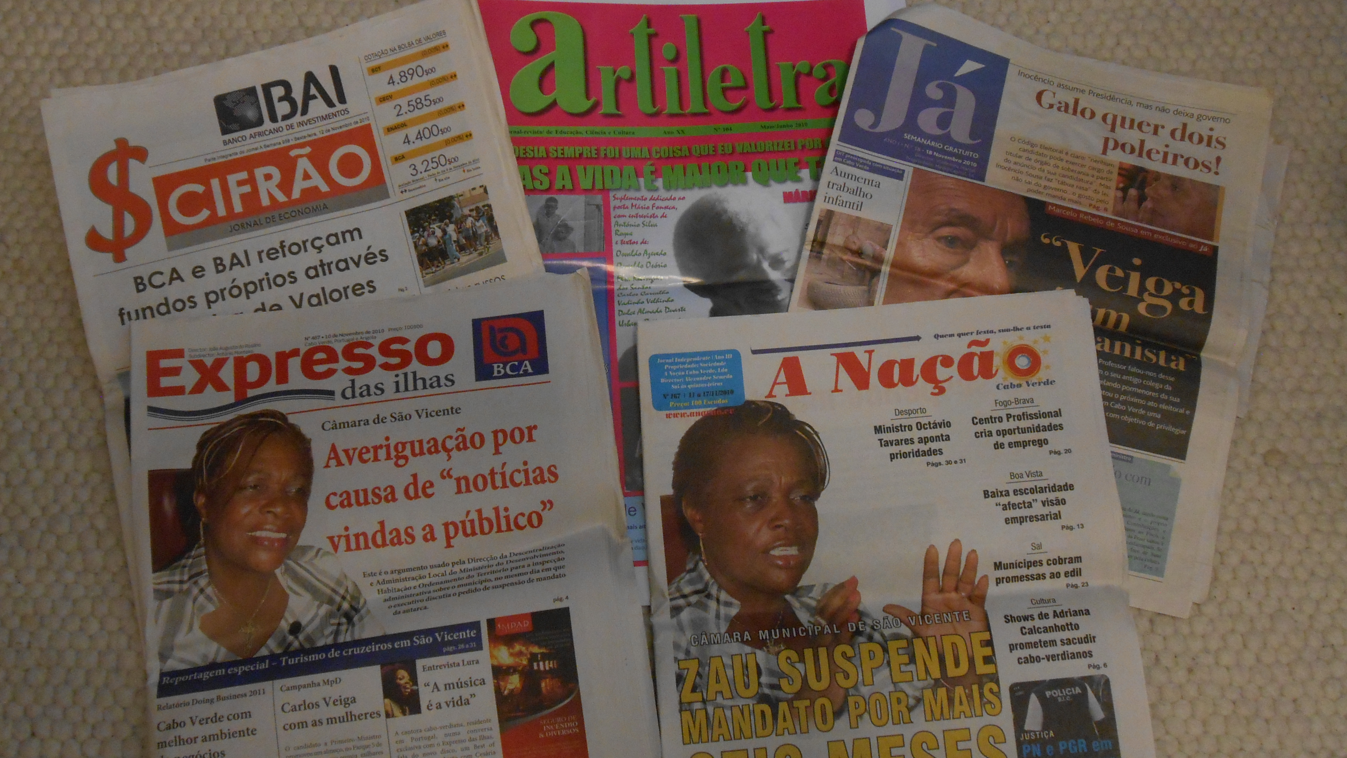 A random collection of newspapers of Cape Verde.